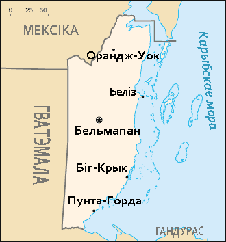 Map of Belize in Belarusian